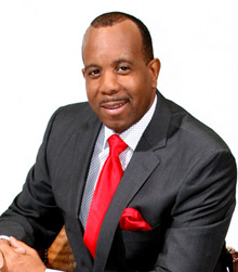 Smaller photo of Bishop Charles Ellis